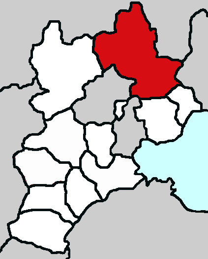 Chengde city of Hebei province,China Made by myself